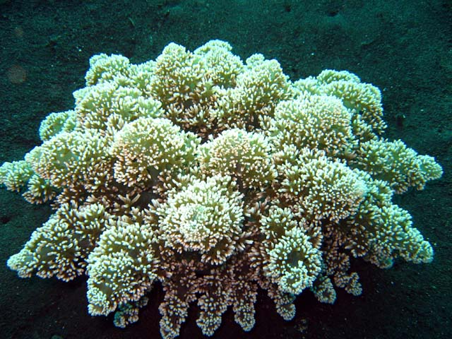 Sea anemone (Actinodendron arboreum), Bali, Indonesia